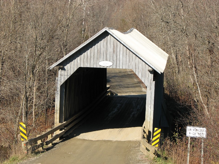 Eustis Bridge, Compton, QC - Front view